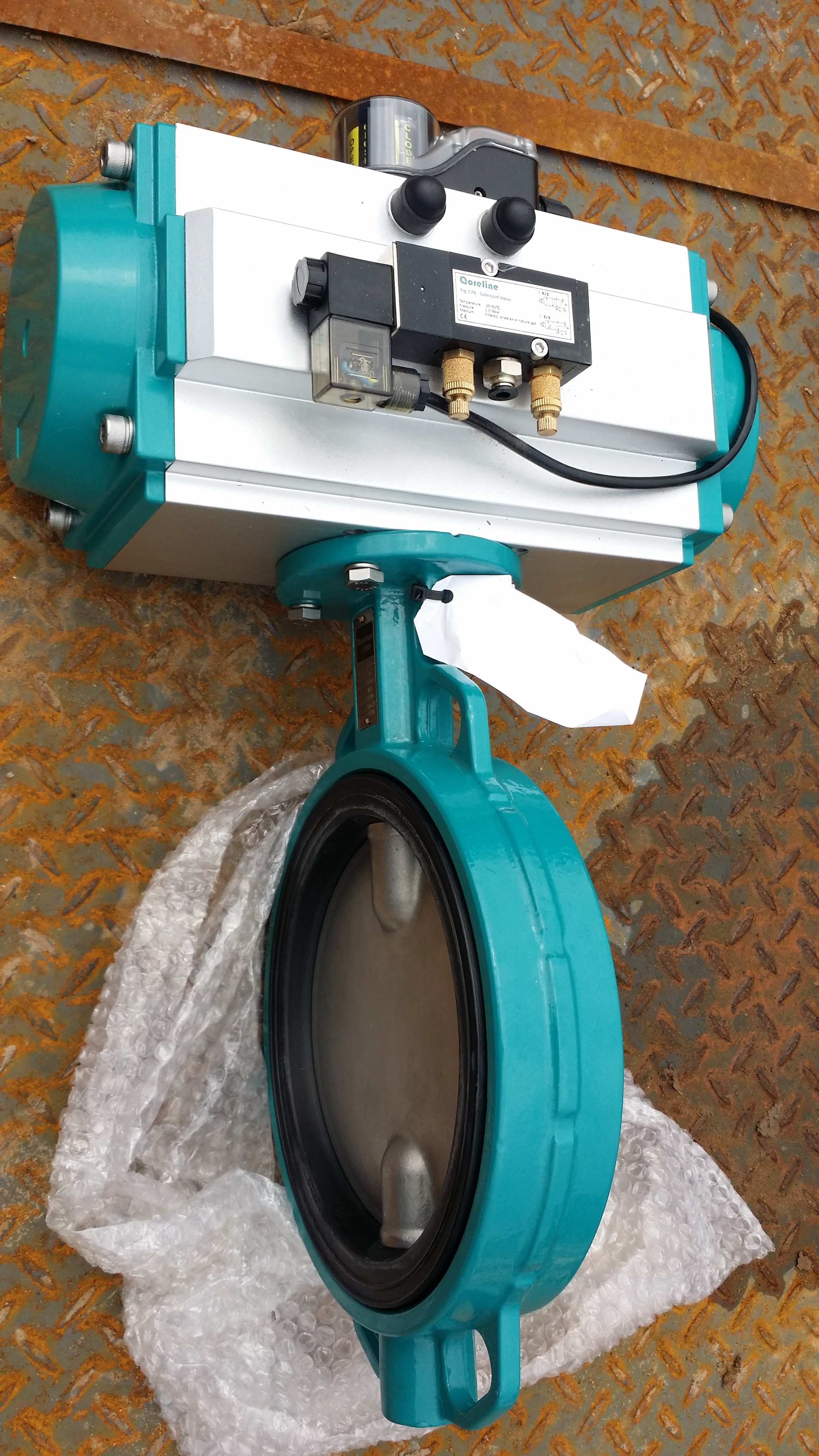 A solenoid actuated pneumatic butterfly valve